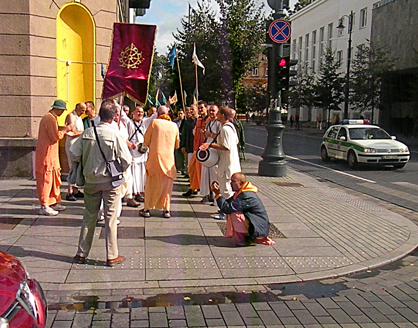 ISKCON in Vilnius